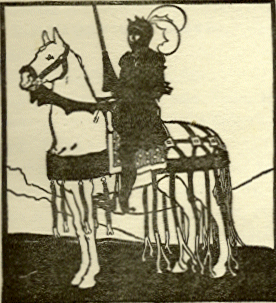 Knight on his horse.